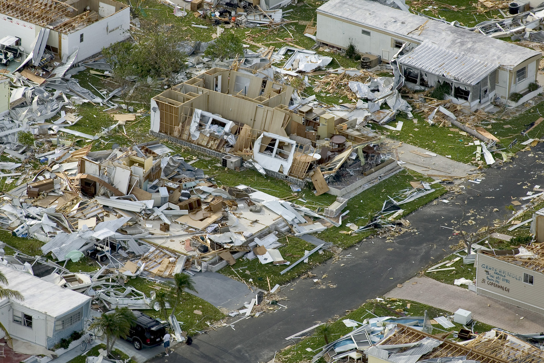 Aerial image of destroyed homes in Punta Gorda (USA), following hurricane Charley.